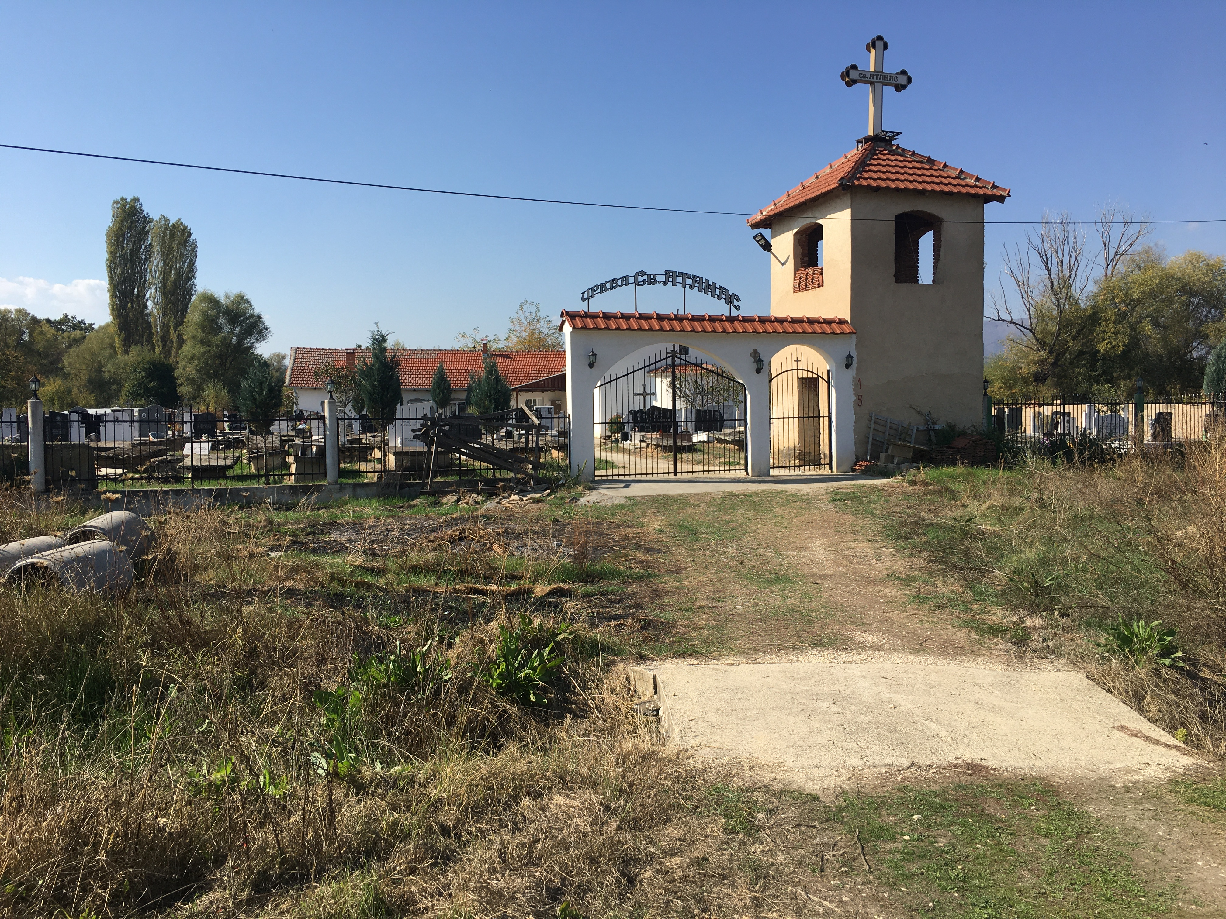 St. Athanasius Church in the village of Sekirci